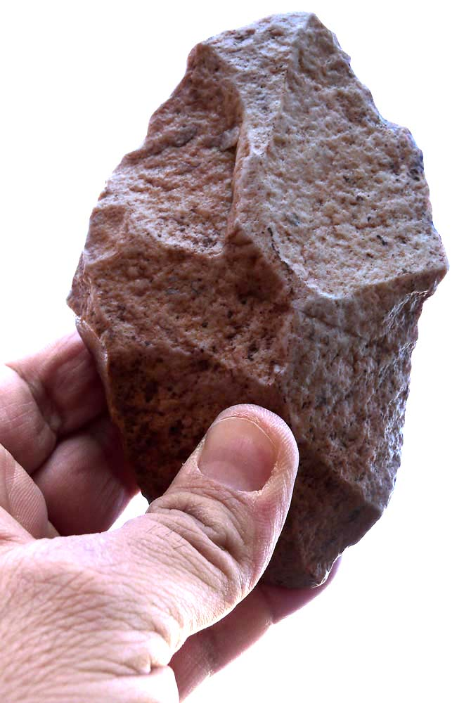 Acheulean Levallois flake that proceeds from a superficial site in the Zamora province (Spain), in the valley of a tributary of Douro river.